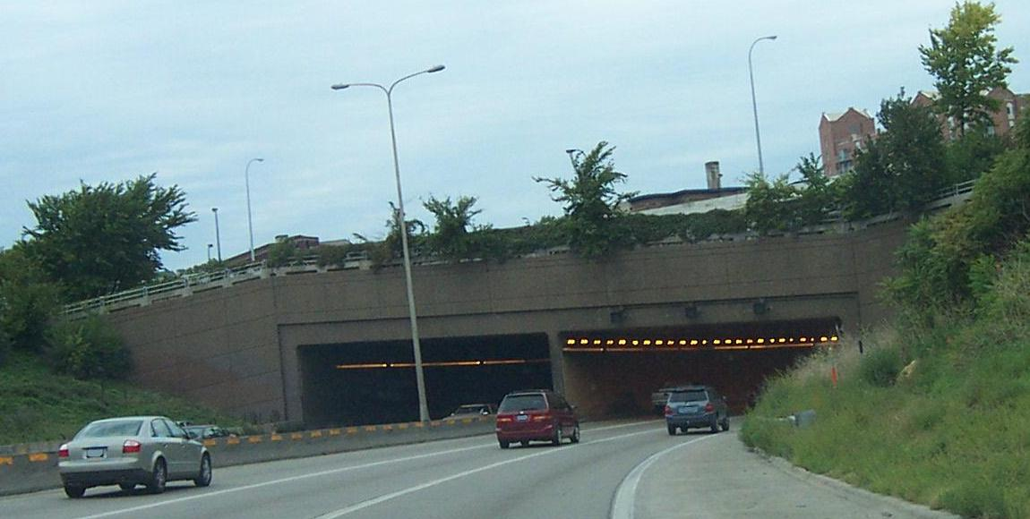 Photo of Lowry Hill Tunnel, Minneapolis, westbound on I-94.